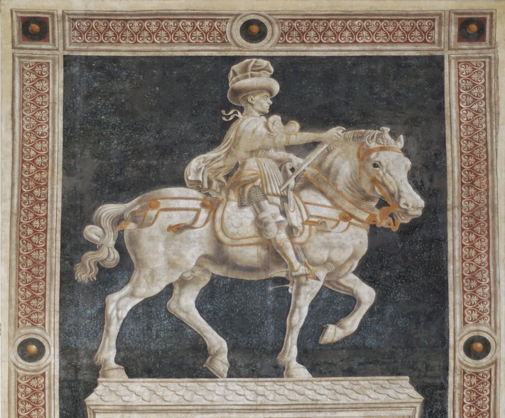 Equestrian monument to condottiere Niccolò da Tolentino, detail. Fresco in the nave of the Duomo of Florence, Italy.